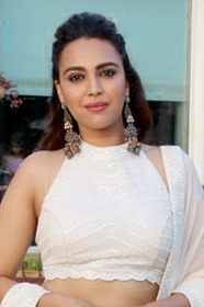 Swara Bhaskar promote Veere Di Wedding at Sun n Sand in Juhu